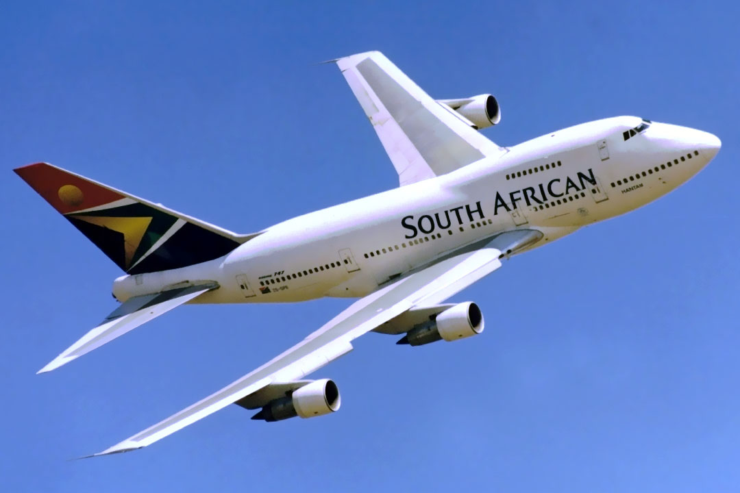 South African Airways B747-SP ZS-SPE